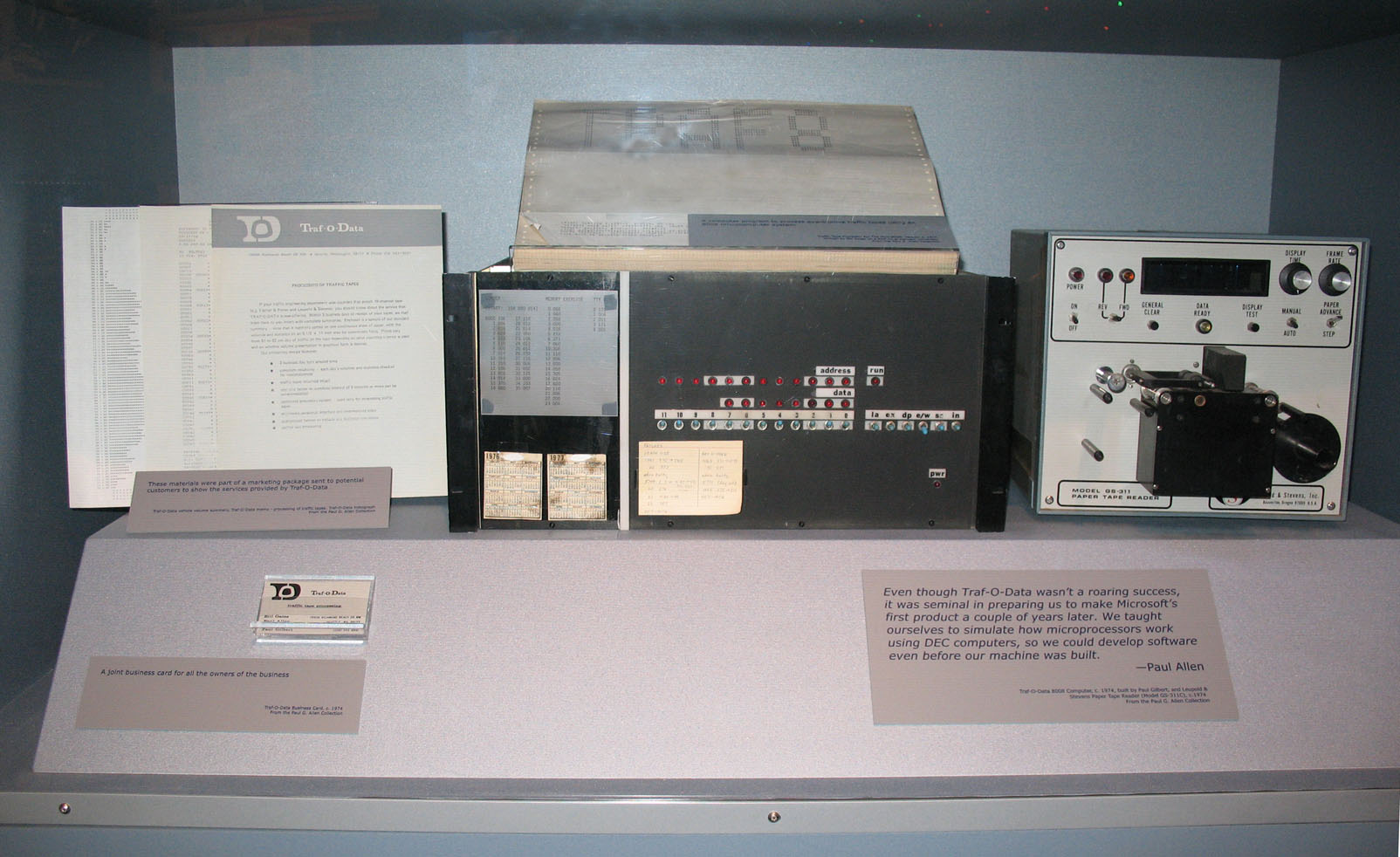 Even though Traf-O-Data wasn't a roaring success, it was seminal in preparing us to make Microsoft's first product a couple of years later. We taught ourselves to simulate how microprocessors work using DEC computers, so we could develop software even before our machine was built. - Paul Allen Traf-O-Data 8008 Computer, c 1974, built by Paul Gilbert, and Leopold & Stevens Paper Tape Reader (Model GS-311C), c 1974 - From the Paul G. Allen Collection. This Traf-O-Data system is on display at the "STARTUP: Albuquerque and the Personal Computer Revolution" wing of the New Mexico Museum of Natural History and Science. Photo by Michael Holley, April 2007. Taken with a Canon PowerShot A630 (1/60 second and F/2.8) using on camera flash.